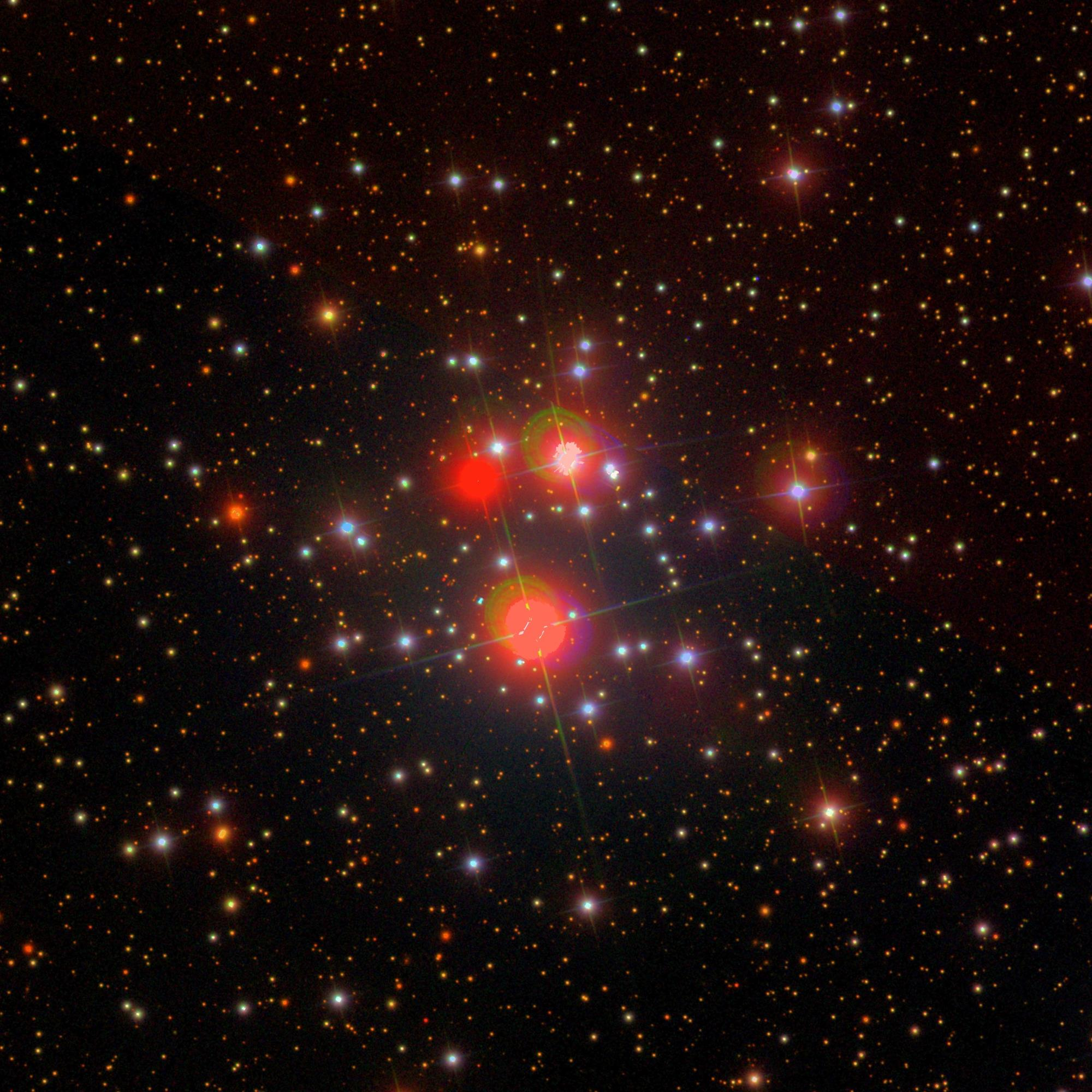 Angle of view: 13.2' × 13.2' (0.396" per pixel), north is up.